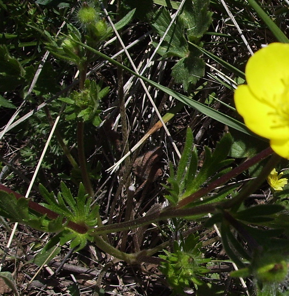 Ranunculus arvensis leaves, Castelltallat, Catalonia